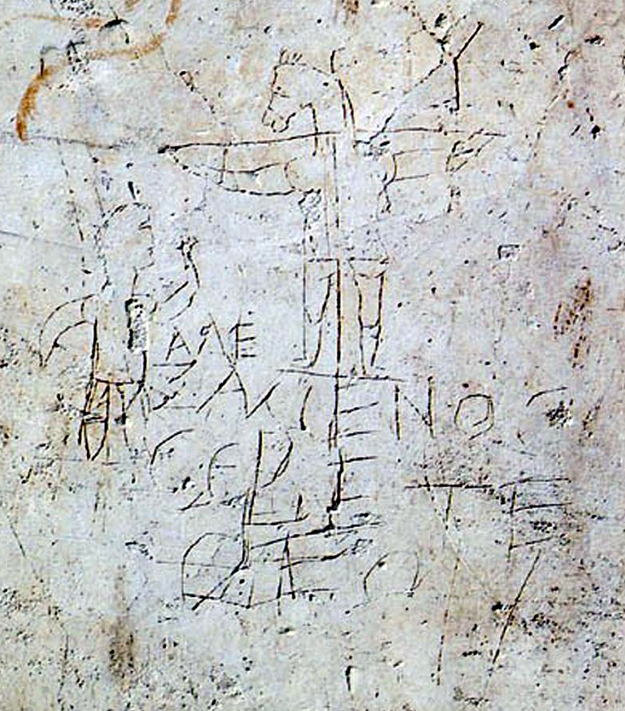 Second century pagan graffito depicting a man worshipping a crucified donkey. It is inscripted ΑΛΕΞΑΜΕΝΟΣ (ΑΛΕΞΑΜΕΝΟC) ΣΕΒΕΤΕ (CEBETE) ΘΕΟΝ, which translates as "Alexamenos respects God". It is presumed to be mocking a Christian soldier. Visible at the museum on the Palatine Hill, Rome, Italy.